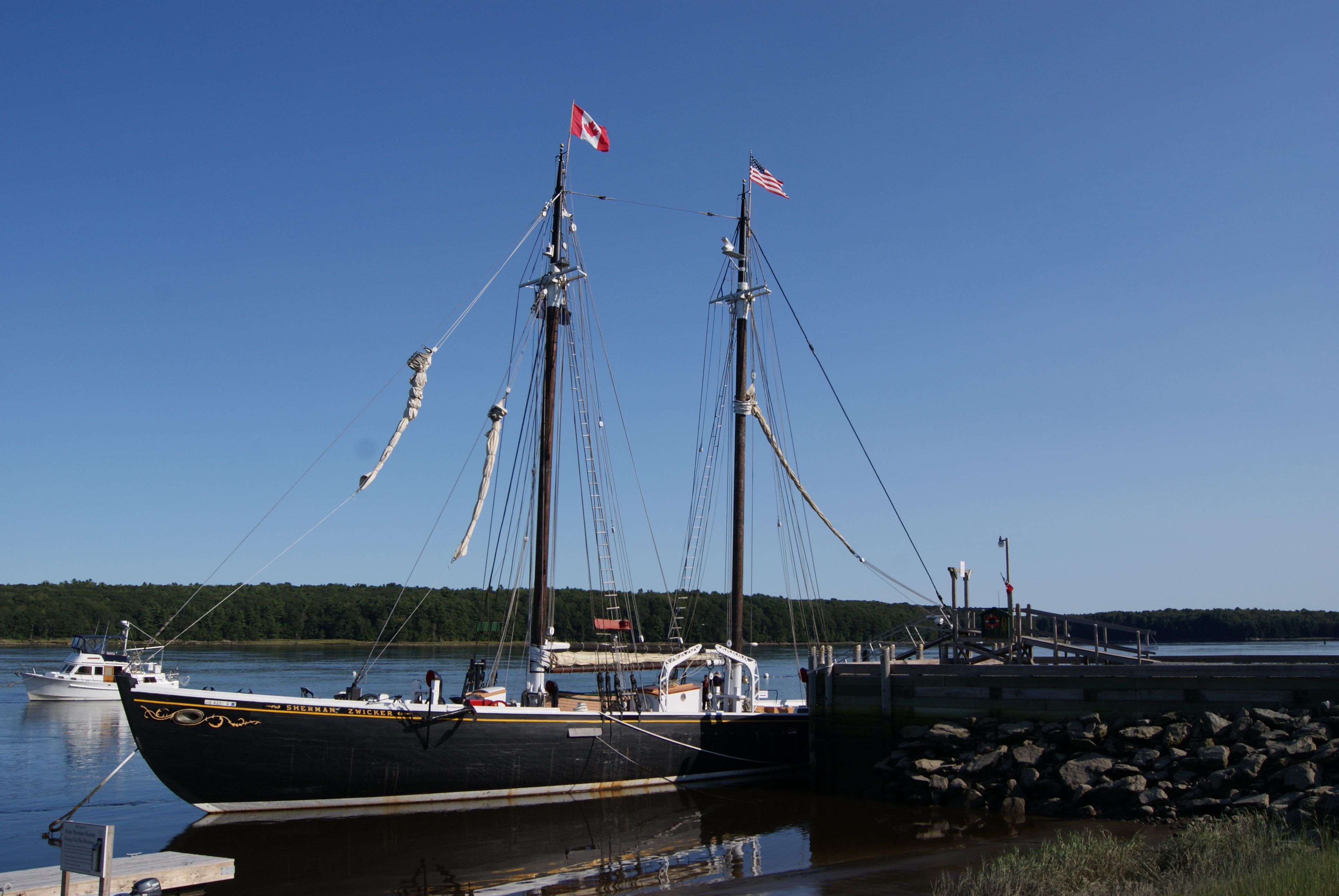 The Sherman Zwicker, a wooden auxiliary schooner moored at the Maine Maritime Museum in Bath, Maine, USA.